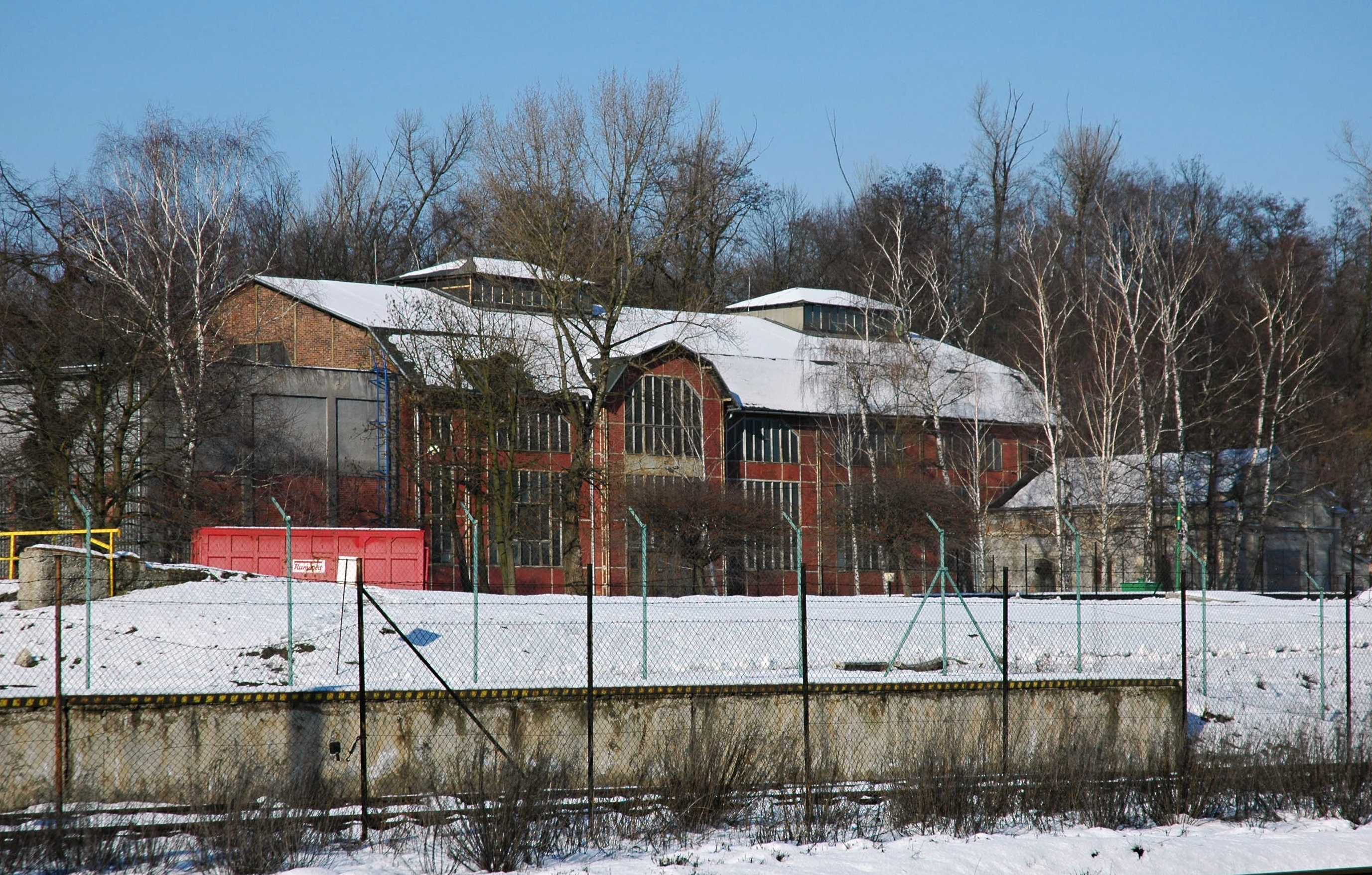 Former coal mine Stachanov (Hubert), Ostrava, Czech Republic